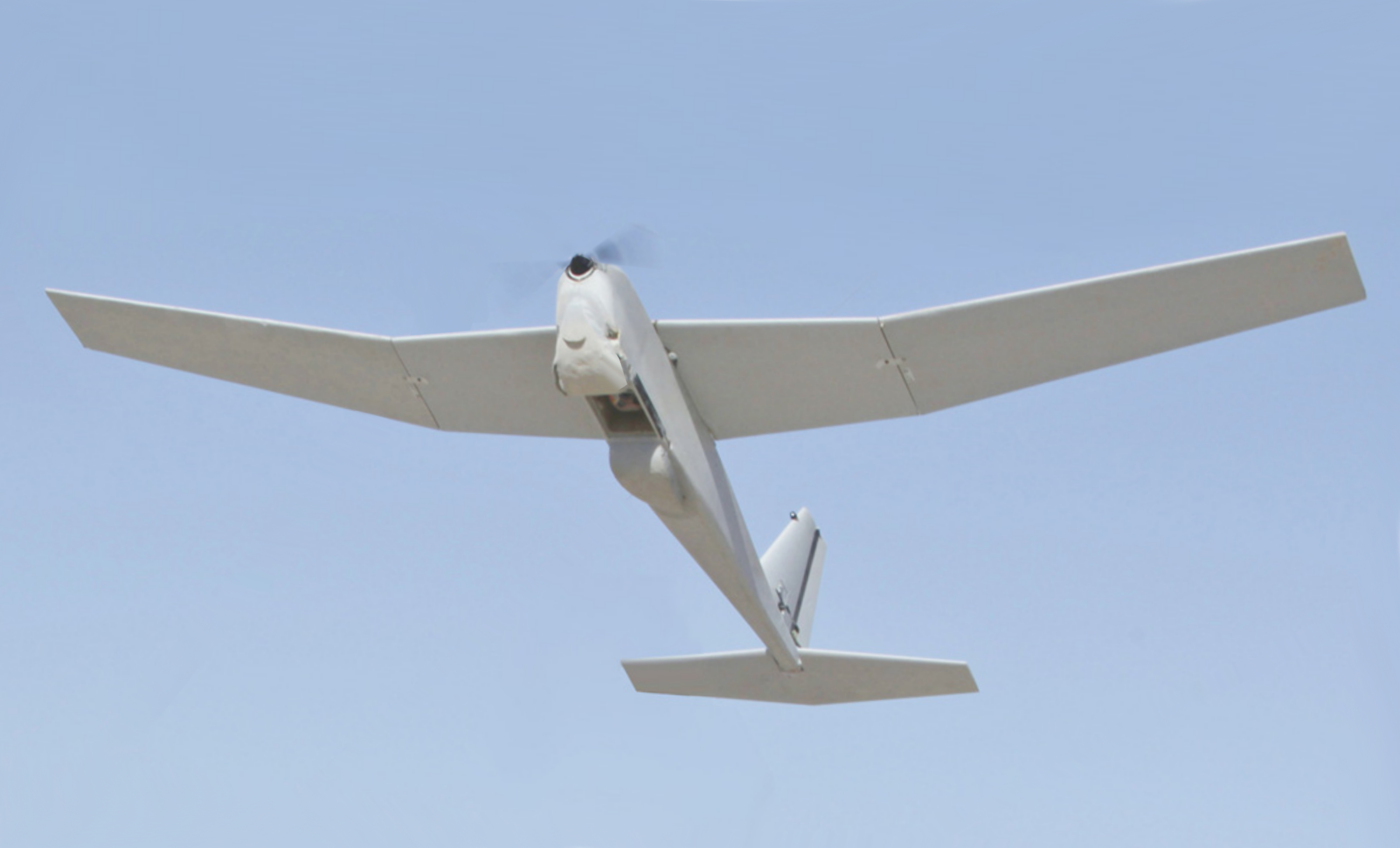 U S Marine Corps RQ-20 Puma